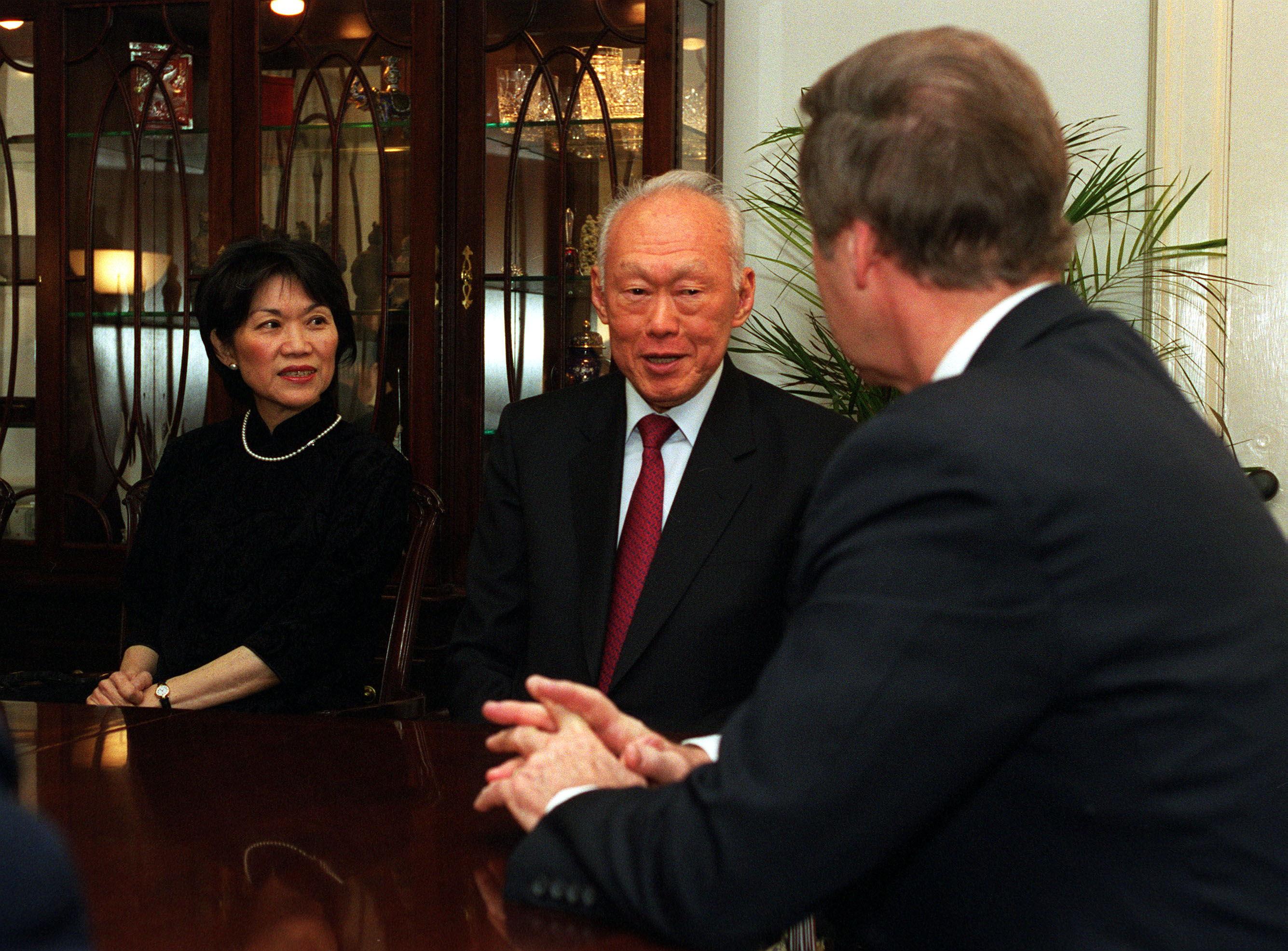 United States Secretary of Defense William S. Cohen (right) meets in his Pentagon office with Senior Minister Lee Kuan Yew (center), of Singapore, and Singapore's Ambassador to the U.S. Chan Heng Chee (left) on February 29, 2000. Cohen, Lee and Chan are meeting to discuss a broad range of security issues, global as well as regional in scope, which are of interest to both nations.